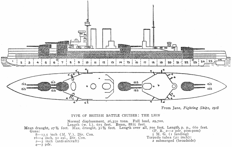 Lion class battlecruiser - credited to Jane's Fighting Ships, 1919